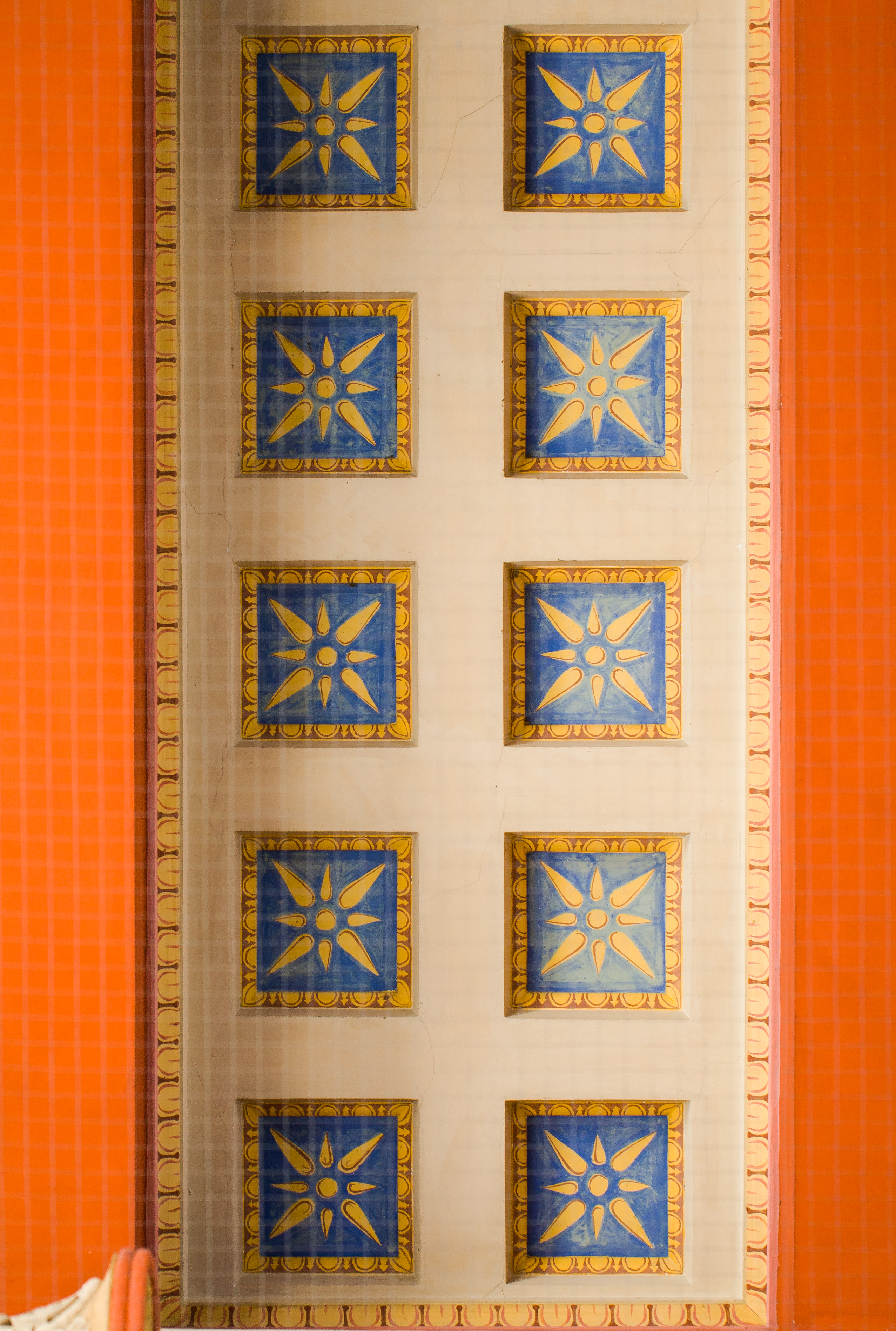 Ceiling of the interior of the Propyläen, Königsplatz, Munich, Germany